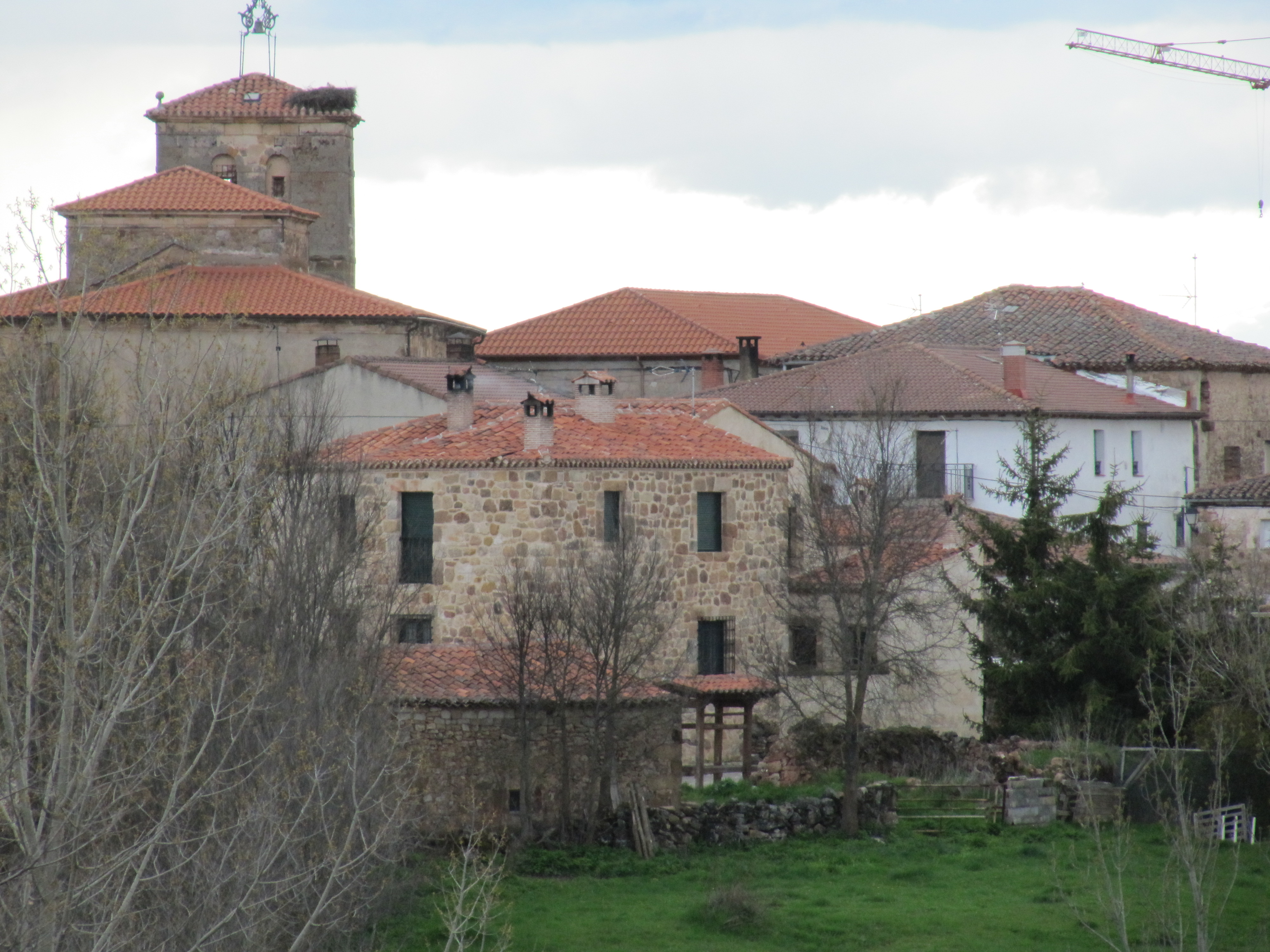 Vista de la Aldea del Pinar, Hontoria del Pinar